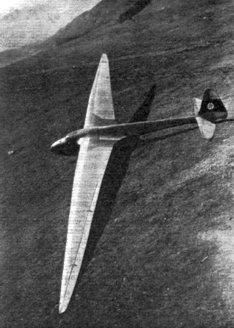 The record breaking Fafnir 2 in 1934